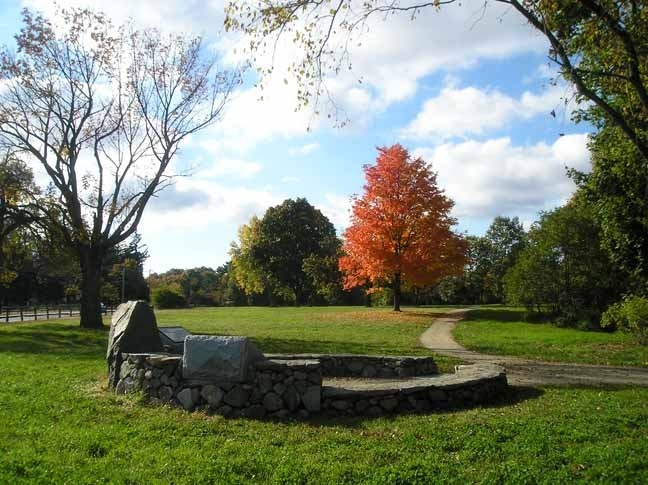 On April 18-19, 1775, Paul Revere rode from Boston to Lexington to deliver a warning to American leaders that British troops were marching to Concord to destroy or confiscate supplies and ammunition. After warning officials in Lexington, Revere, William Dawes, and Samuel Prescott headed to Concord to warn officials there. Before there reached Concord, a British patrol of mounted soldiers stopped them and capture Paul Revere, ending his famous ride. This monument marks the location of his capture in Lincoln, Massachusetts.